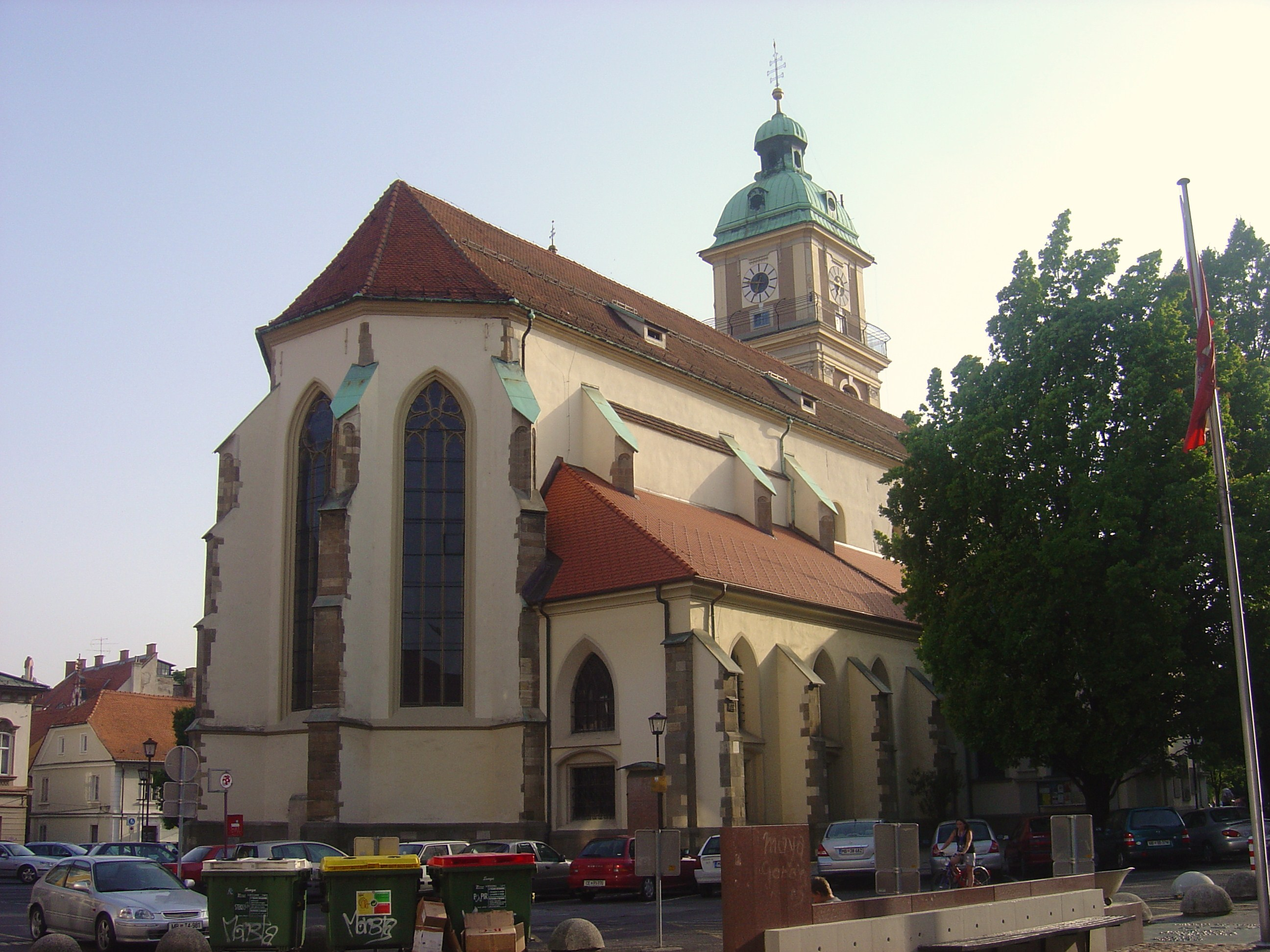 Maribor, Slovenia